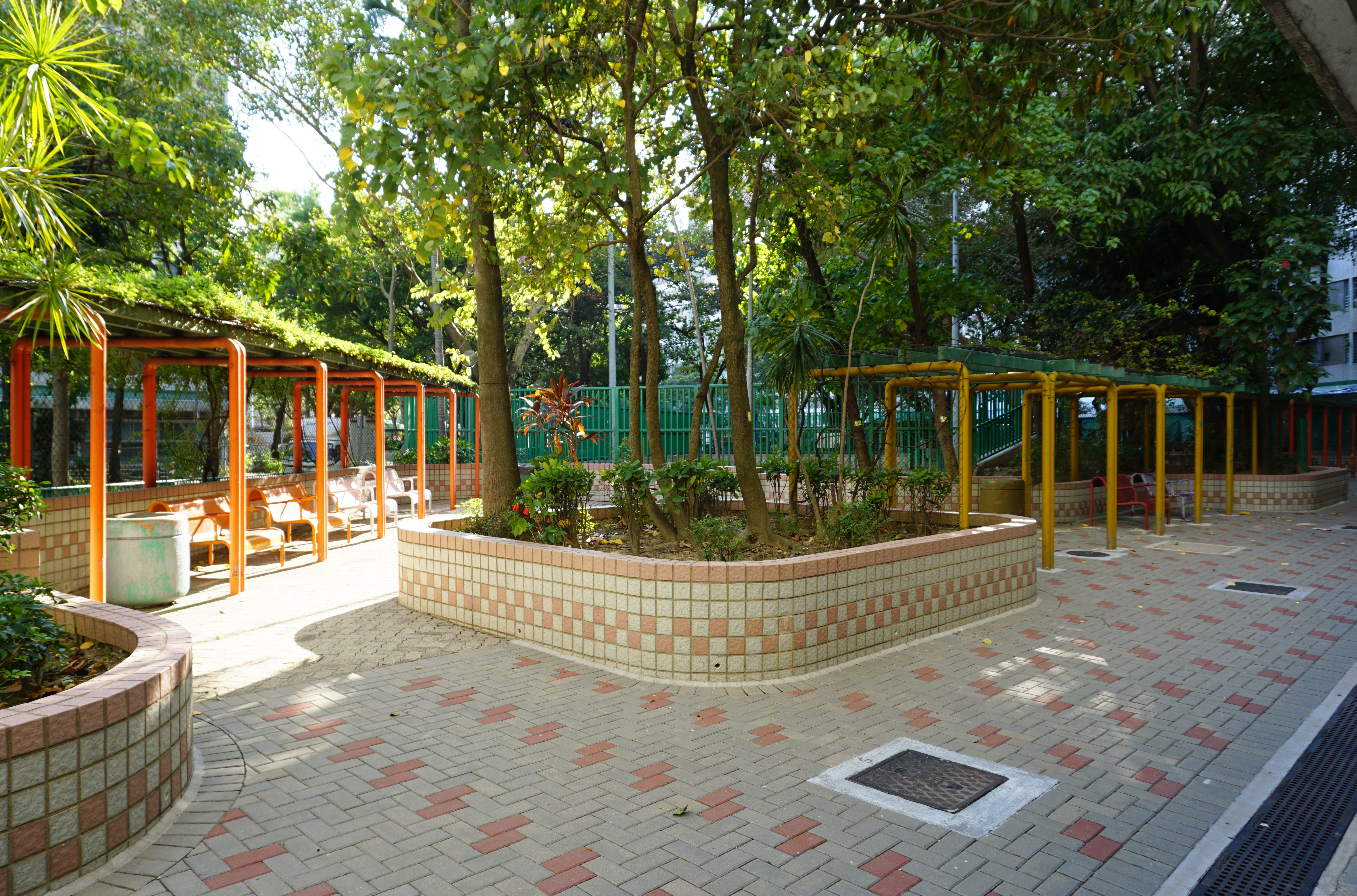 Butterfly Estate in Tuen Mun, Hong Kong.